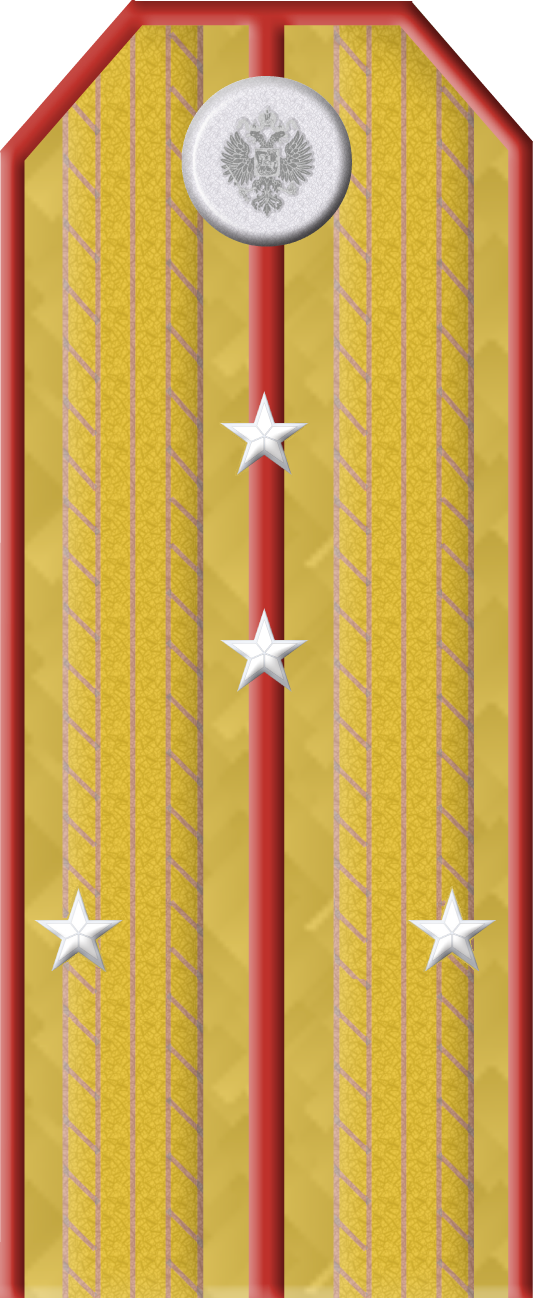 Rank insignia of the Imperial Russian Army, here "Staff captain" – shoulder strap 1909-1917. Particularity: Cavalry “Staff rittmeister“, Cossack Army “Deputy/ assistant yesaul”.